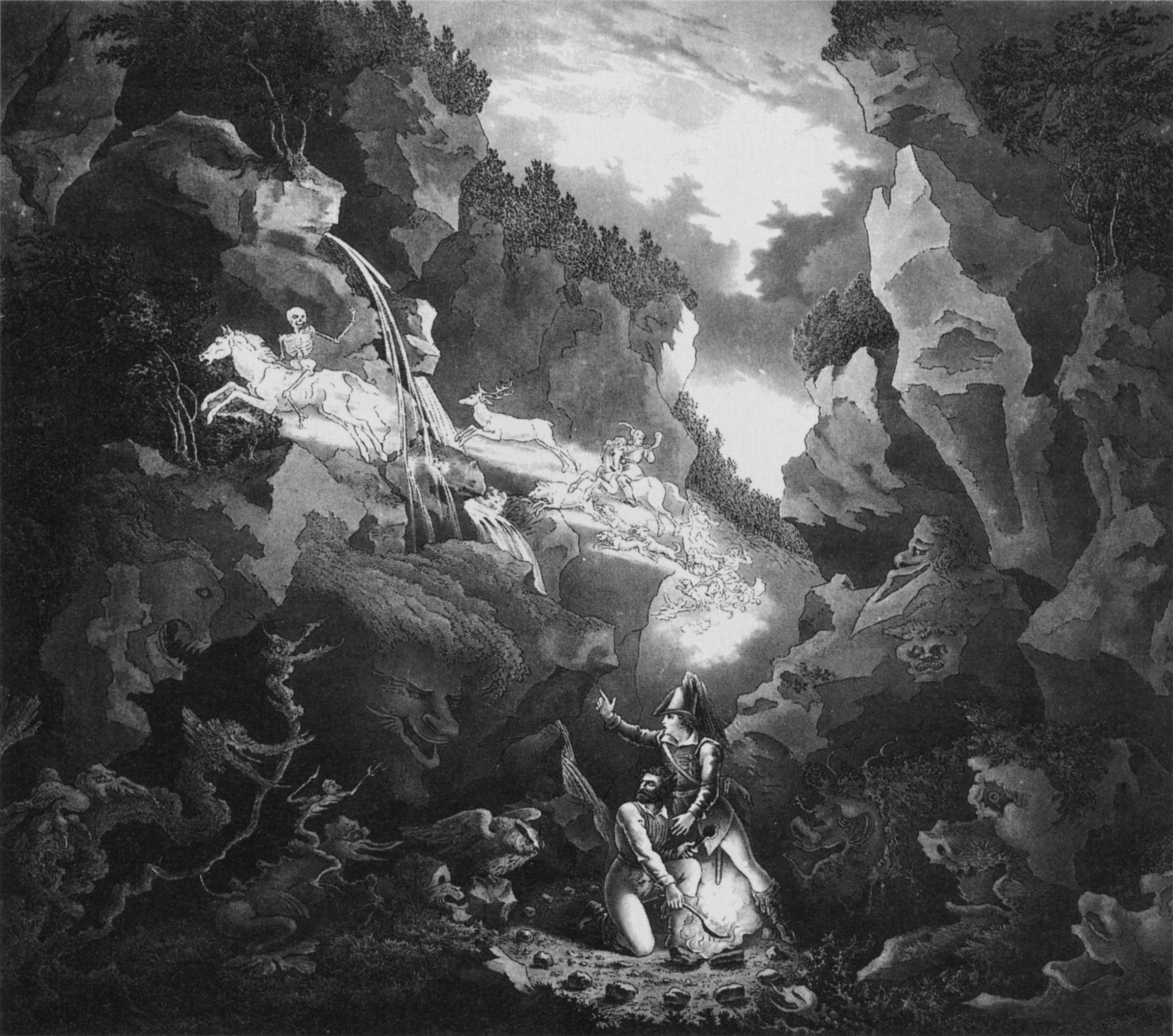 Set design for Act 2 (Wolf's Glen) of the opera Der Freischütz by Carl Maria von Weber, as performed in 1822 in Weimar, Germany